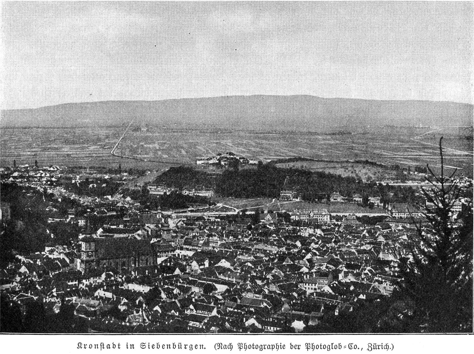 Brasov in 1906, panoramic view.